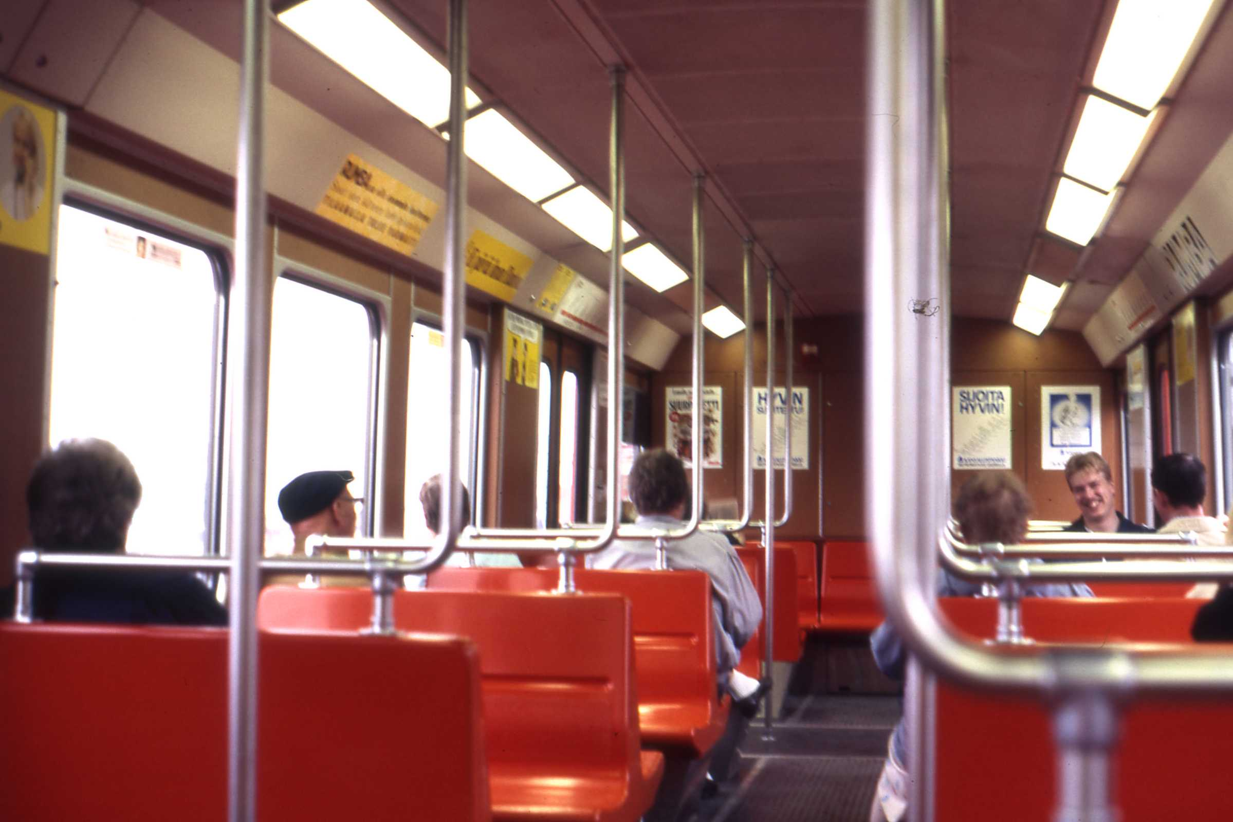 Interior of M100 train in Helsinki metro in 1987